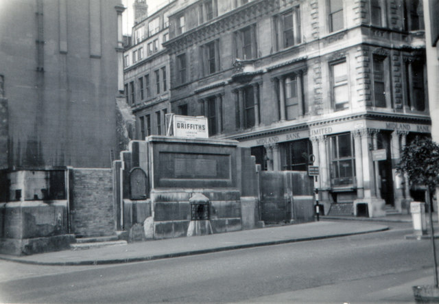 Church of St. Swithin's London Stone. Picture taken in 1962 just before the remains of this bomb-damaged church were finally demolished. London Stone is housed in the compartment at pavement level immediately below the "Griffiths" demolition board. For a modern close-up see 493195. There is also a Wikipedia arcticle on the church at The inscription above the stone read: "London Stone Commonly believed to be a Roman Work Long placed about 35 foot hence Towards the South West And afterwards built into the Wall of this Church Was for more careful Protection And transmission to Future Ages Better secured by the Churcwardens In the Year of Our Lord 1869 Edward Allfree M.A. Rector Henry Edward Murrell John Land Charles Cann Charles Curtoys Churchwardens Churchwardens St. Swithin St. Mary Bothaw" [Note: The rectory of St. Mary Bothaw was united with St. Swithin's after the Great Fire]. Scanned from an old photograph.